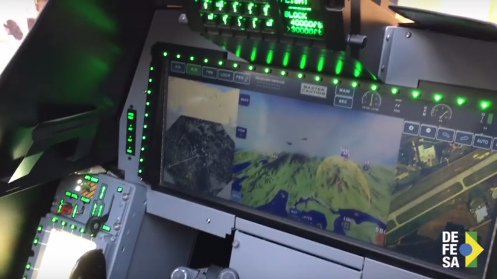 Replica of Brazilian version of Gripen NG cockpit